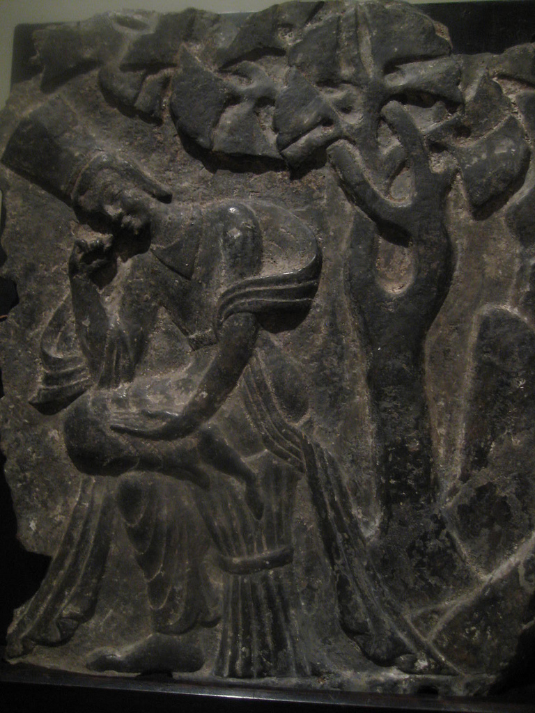 Meditating Maitreya China, Northern Wei dynasty, early 6th century Limestone Gift of Mrs. Carter Galt, 1954 (1915.1) Wikipedia Loves Art at the Honolulu Academy of Arts This photo of item # 1915.1 at the Honolulu Academy of Arts was contributed under the team name "wiki_wiki_whaaat" as part of the Wikipedia Loves Art project in February 2009. Honolulu Academy of Arts The original photograph on Flickr was taken by absolutlalaland—please add a comment to the original Flickr page whenever a use has been made on Wikipedia or another project. Project galleries on Flickr: this institution, this team